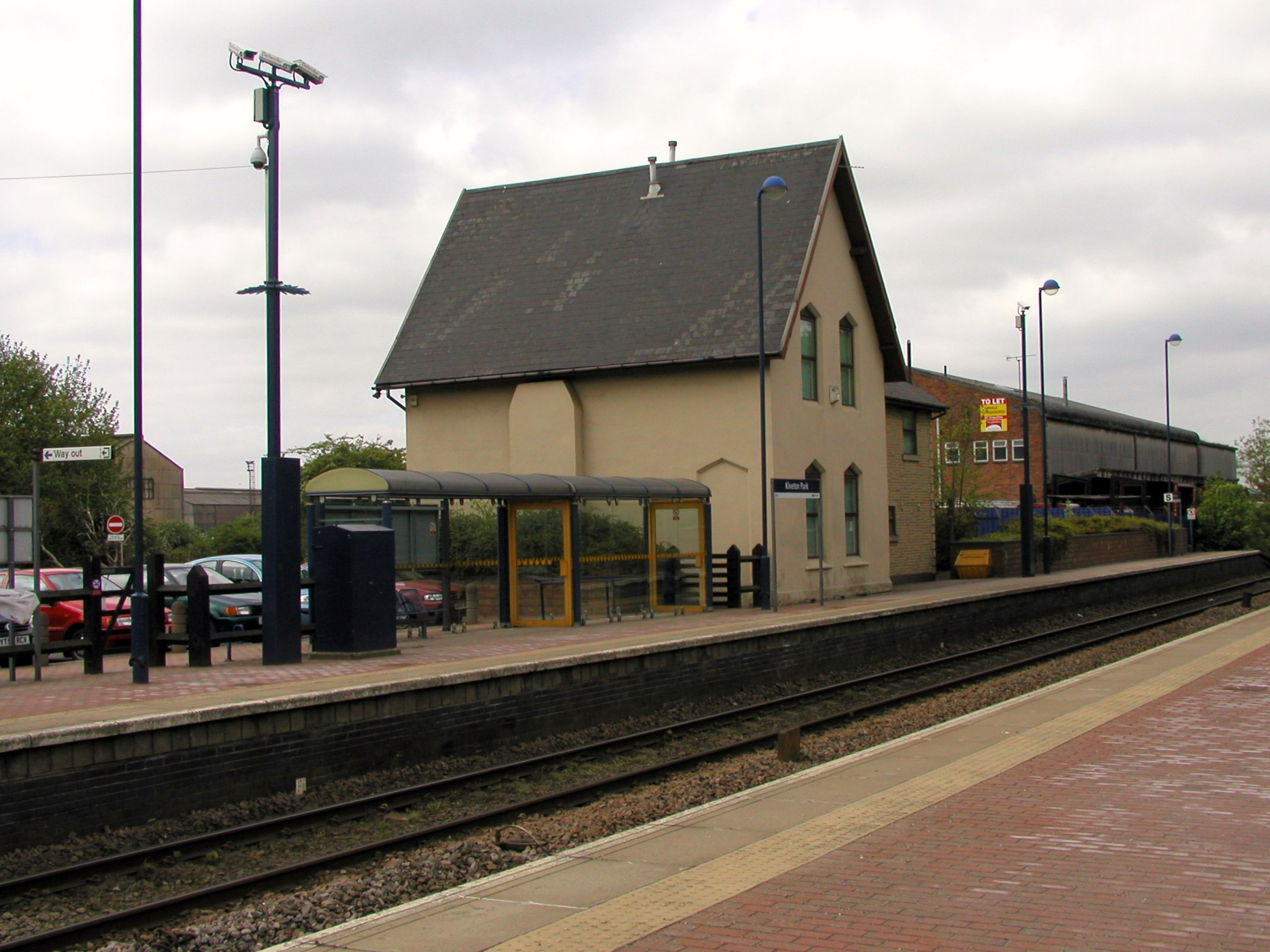 Kiveton Park railway station from the eastbound platfom